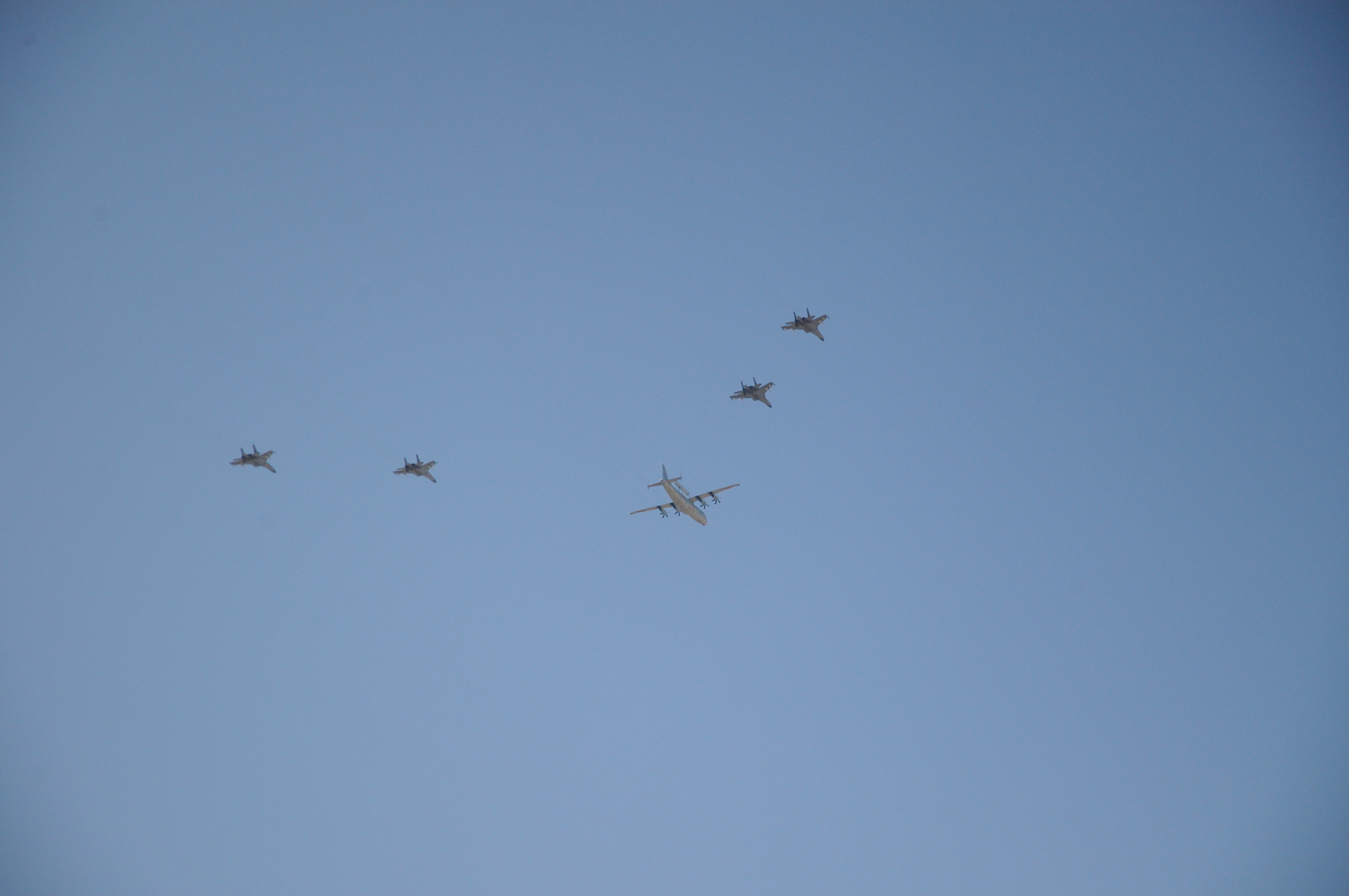 Rehearsal flyby of Shaanxi Y-9/KJ200 AWACS aircraft and Su-27 fighters over Beijing, China. Practice for 60th anniversary of PRC on 1 October (National Day) 2009.